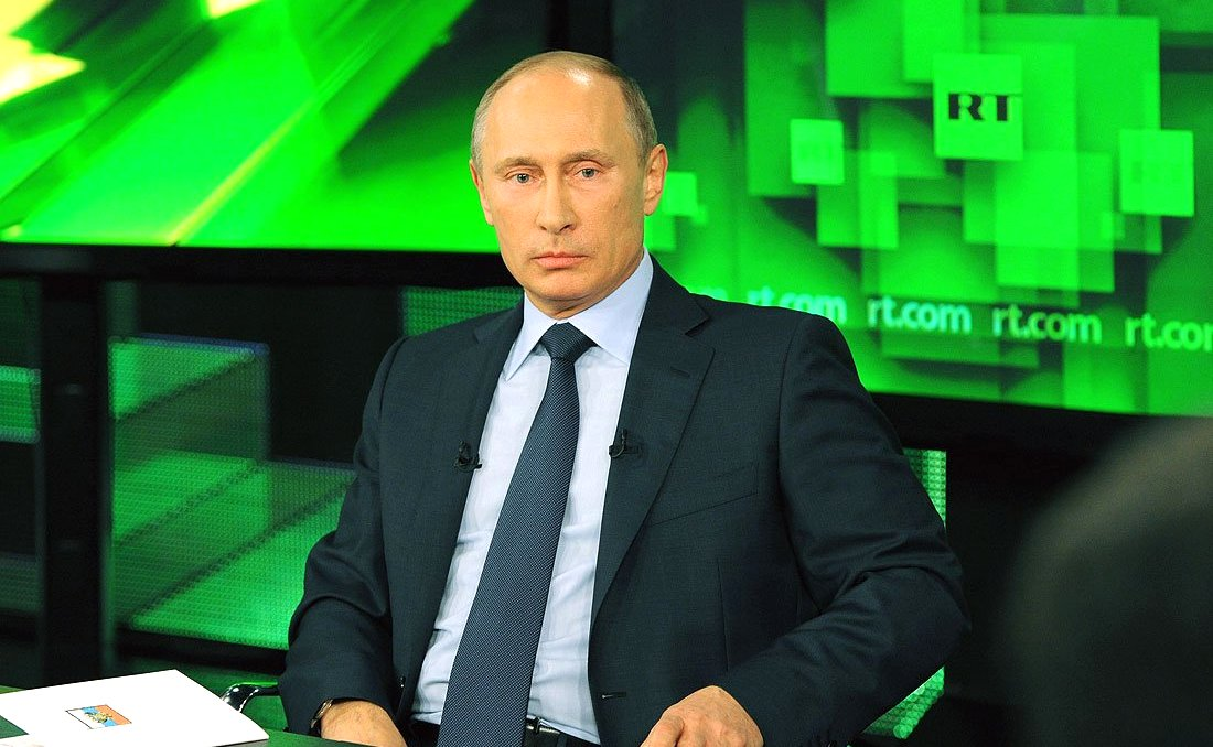 Vladimir Putin visited the new Russia Today broadcasting centre and met with the channel's leadership and correspondents